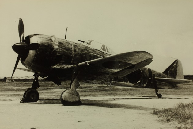 PictionID:6485628 - Catalog:01_00086194 - Title:Nakajima, Ki-44, Shoki 'Devil Queller' Tojo 'John' Army Type 2 Single seat Fighter' - Filename:01_00086194.TIF - Image from the Charles Daniels Photo Collection album "Seversky, Republic and P-47"----PLEASE TAG this image with any information you know about it, so that we can permanently store this data with the original image file in our Digital Asset Management System.----SOURCE INSTITUTION: San Diego Air and Space Museum Archive